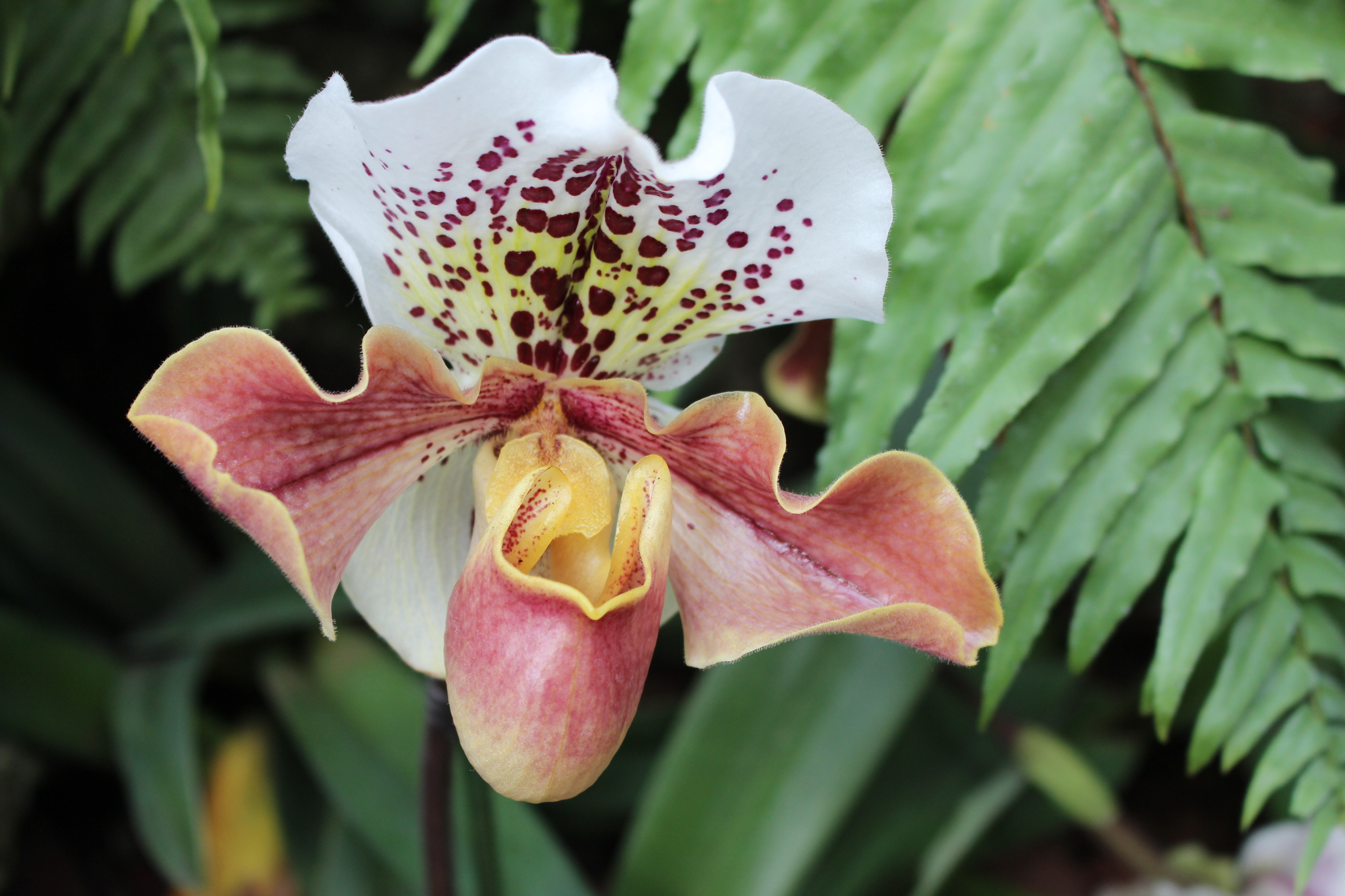 Paphiopedilum cultivars in Kew Gardens, England.